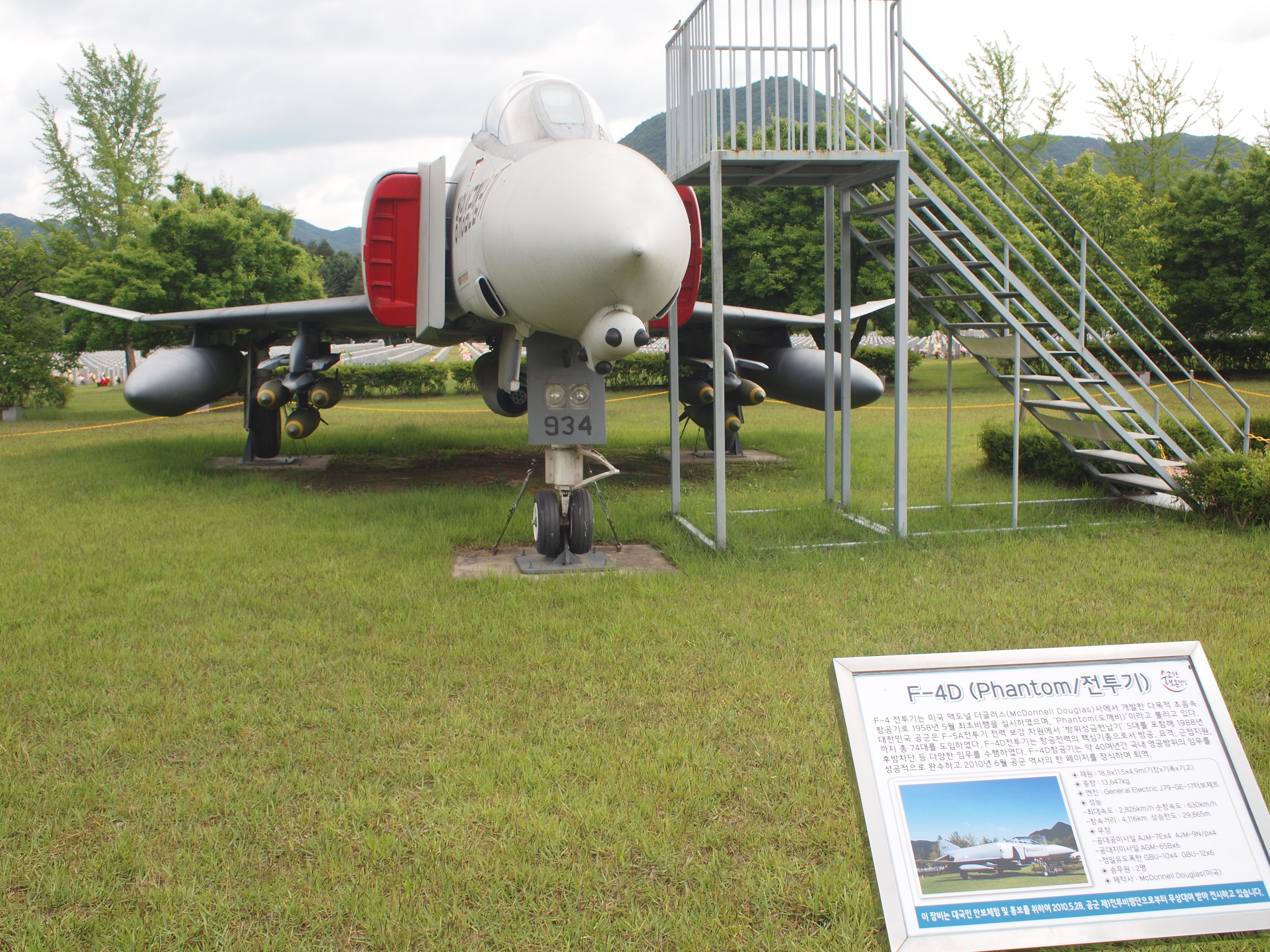 Daejeon National Cemetery